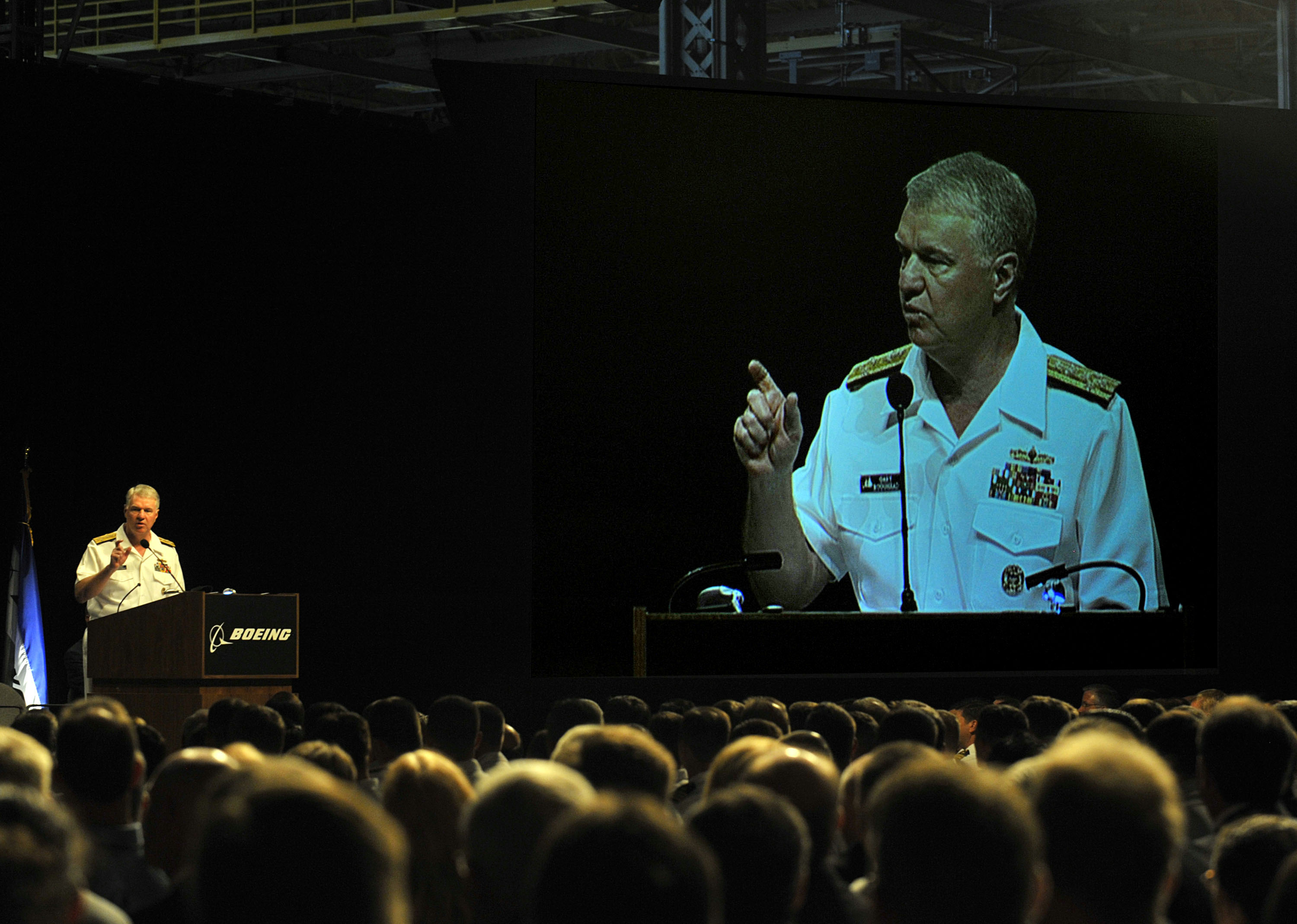 SEATTLE (July 30, 2009) Chief of Naval Operations (CNO) Adm. Gary Roughead delivers remarks during the P-8A Poseidon rollout ceremony in Seattle. (U.S. Navy photo by Mass Communication Specialist 1st Class Tiffini Jones Vanderwyst/Released)